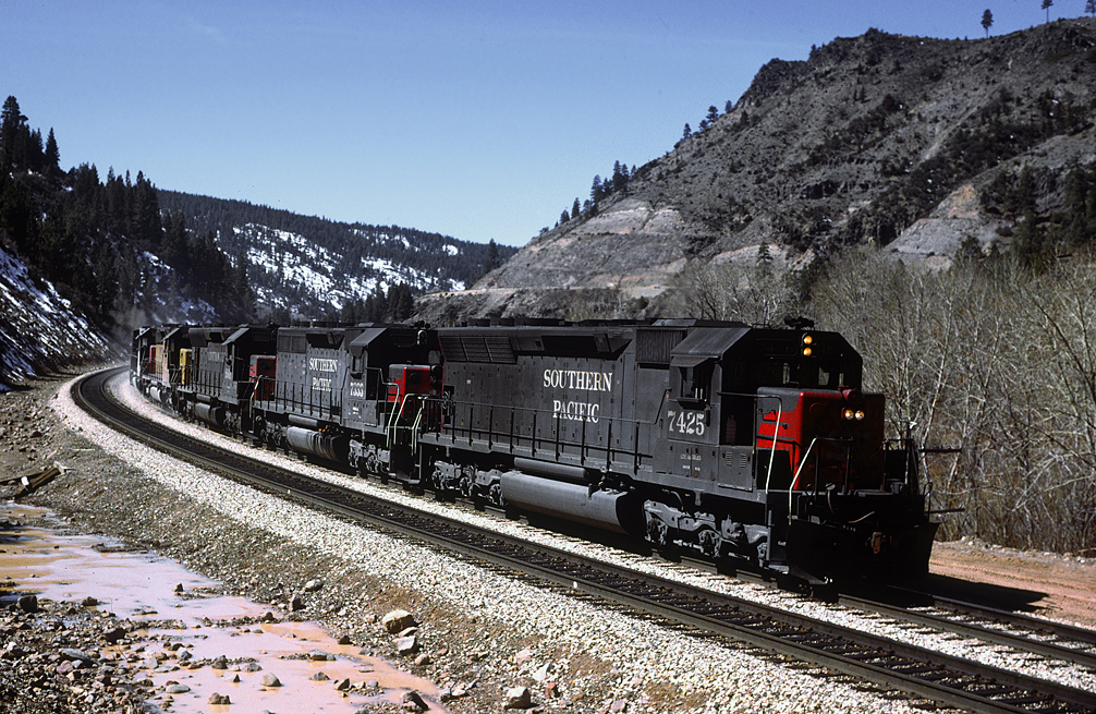 SP SD45T2 #7425 has just passed Iceland and is now approaching Floriston along the Truckee River. March 1987